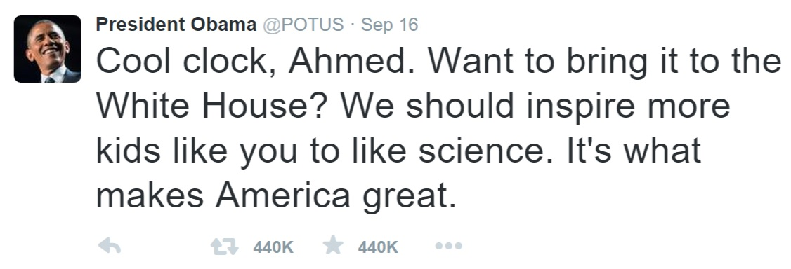 Ahmed Mohamed, student in Texas, received this message on Twitter from US President Barack Obama:"Cool clock, Ahmed. Want to bring it to the White House? We should inspire more kids like you to like science. It's what makes America great."